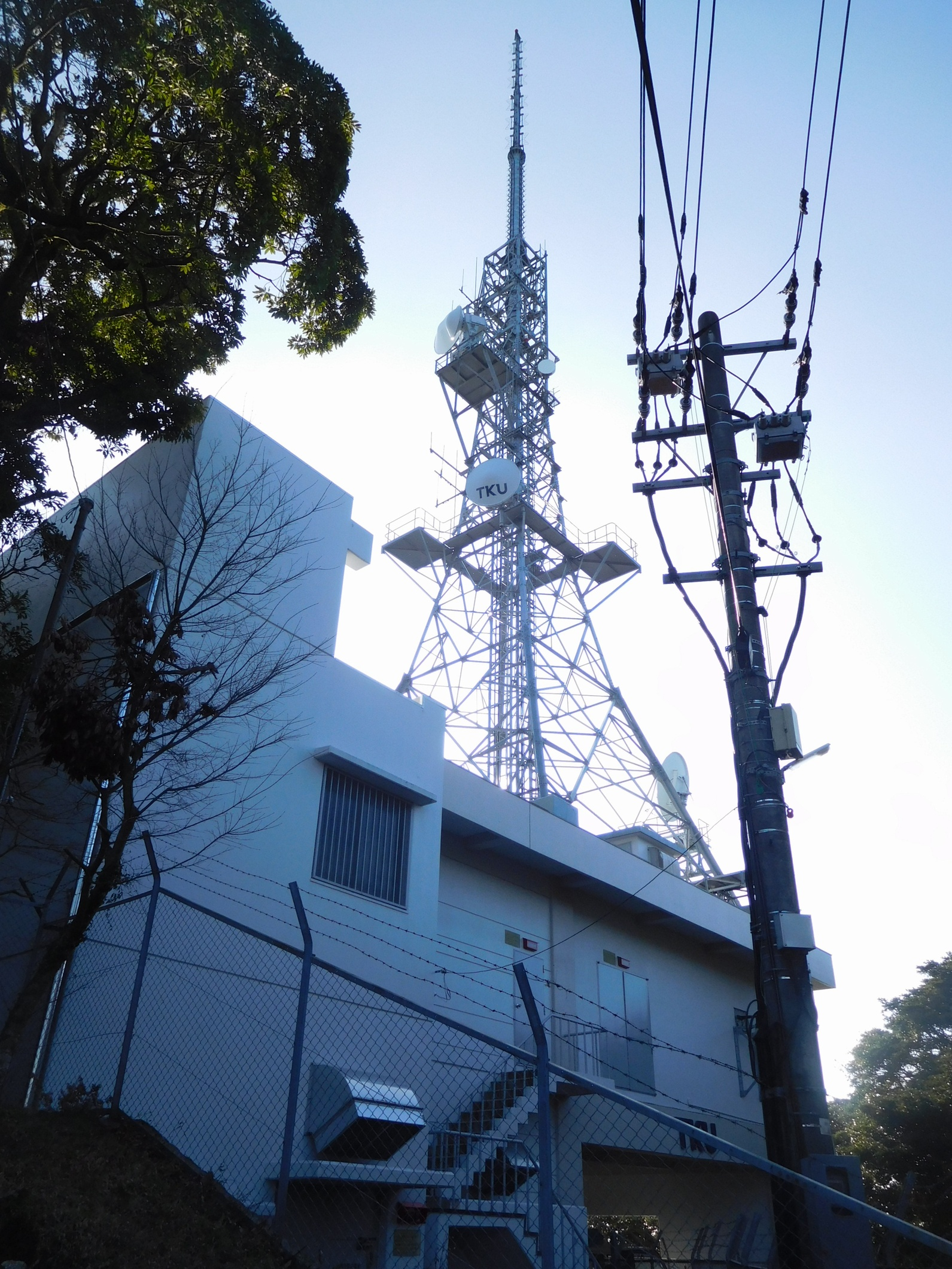 Japan Mobile Casting (NOTTV) Kumamoto Relay Station, former TV Kumamoto (TKU) Kinbo-zan (Kumamoto) Transmitting Tower in 2015.